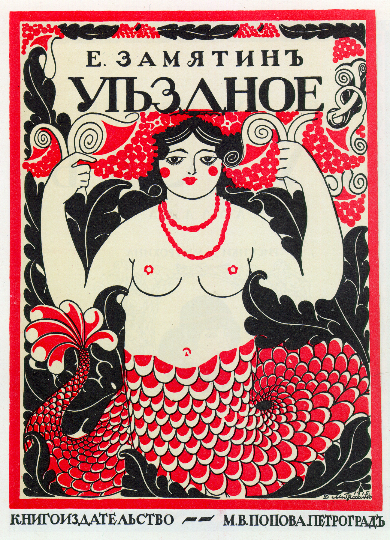 Dmitry Mitrohin. Cover of E.Zamiatin's book "Uezdnoe". 1916